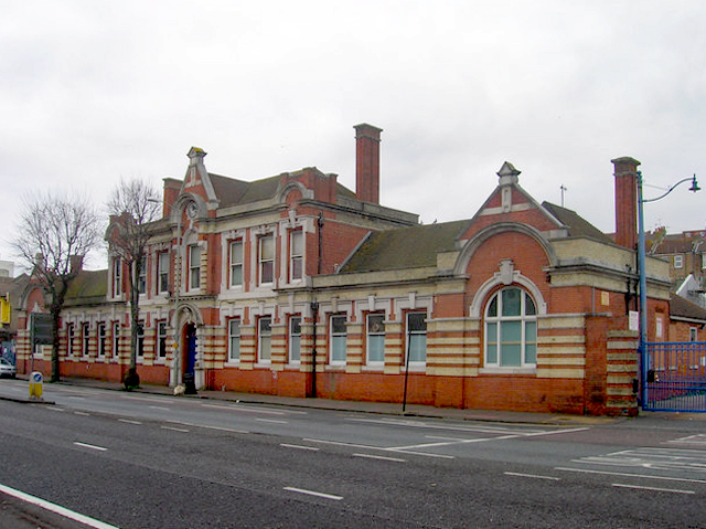 Lewes Road Bus Depot Originally built as Brighton Corporation tram depot building in 1901. Trams operated out of here until 1st September 1939 when they replaced by trolley buses which ran until 30 June 1961. After that building became part of Lewes Road bus depot which it remains as today. The original garages are still to the rear with some of the old rails still embedded in the concrete. Until recently the windows were still etched with the name Brighton Corporation Tramways but these have been removed to a local museum and replaced.